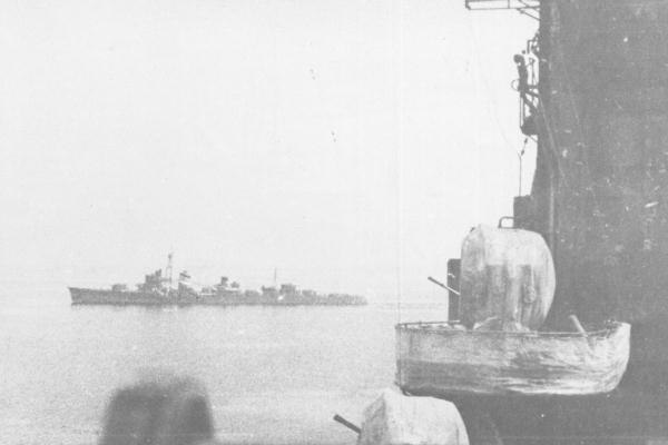 Imperial Japanese Navy Destroyer Oyashio, Kagero-class. Photo taken from Battleship Nagato.